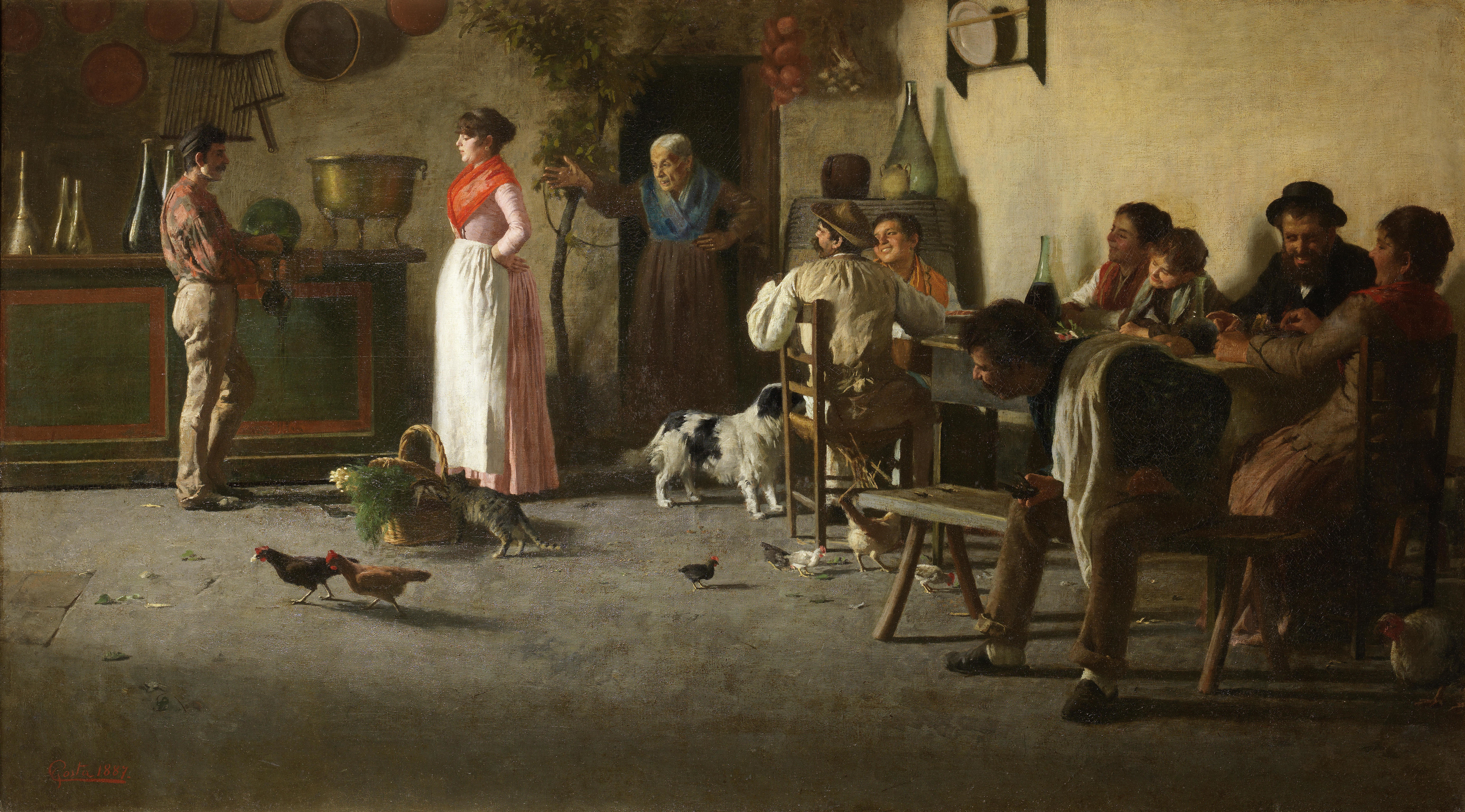 19th century Italian impressionist art.